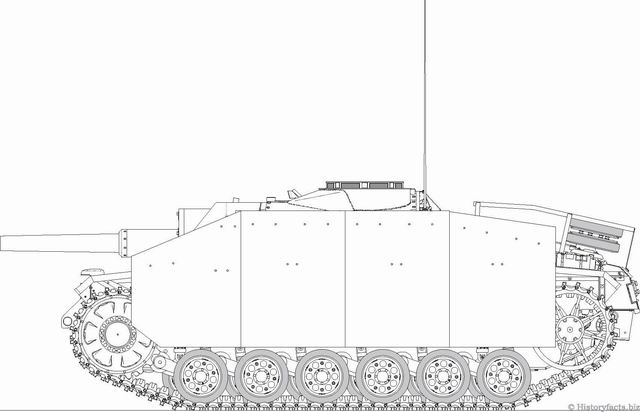 Side drawing of a Assault Howitzer 42, Variant G (September 1944)